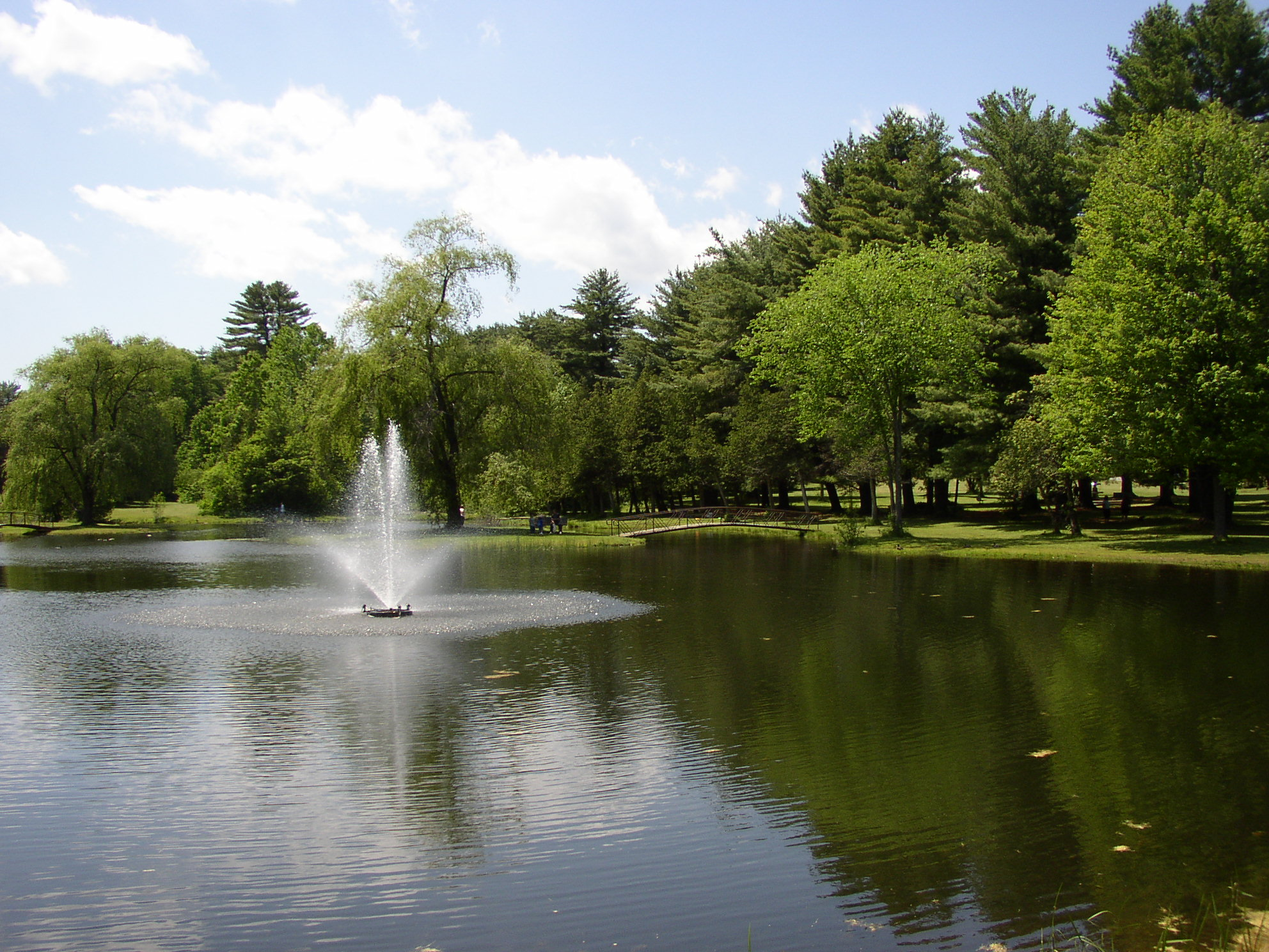 Crandall Park, located in the northwest corner of the city of Glens Falls, Warren County, New York. View of the fountain and pond as seen from US Route 9 facing west.